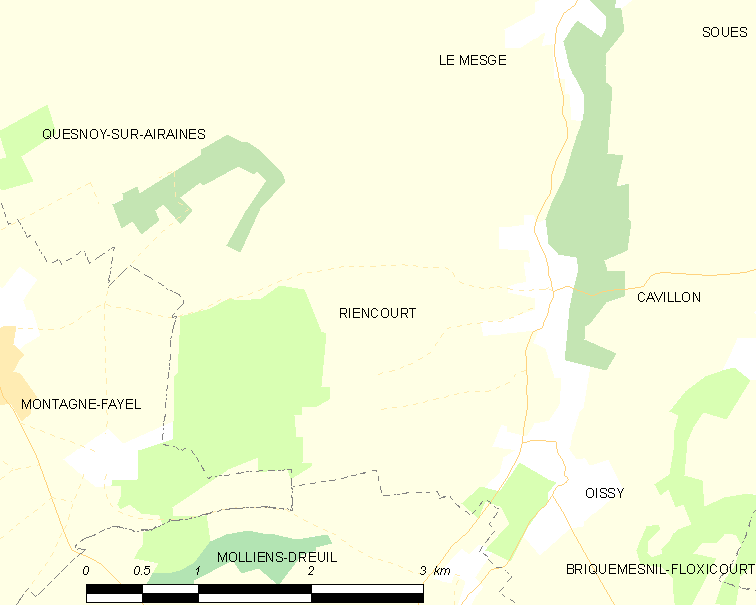 Map of French municipality Riencourt